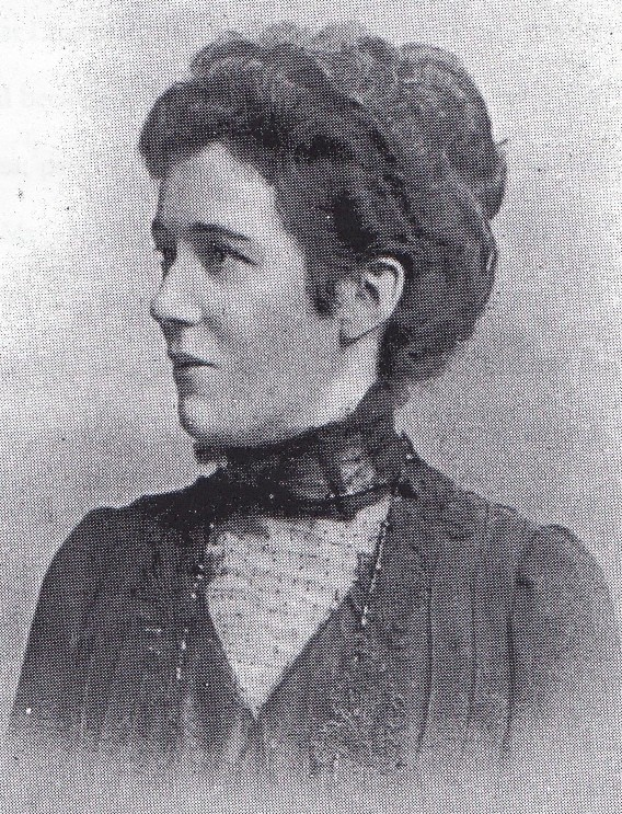 Sophia Morrison (1859-1917), Manx folklorist, cultural activist and writer.